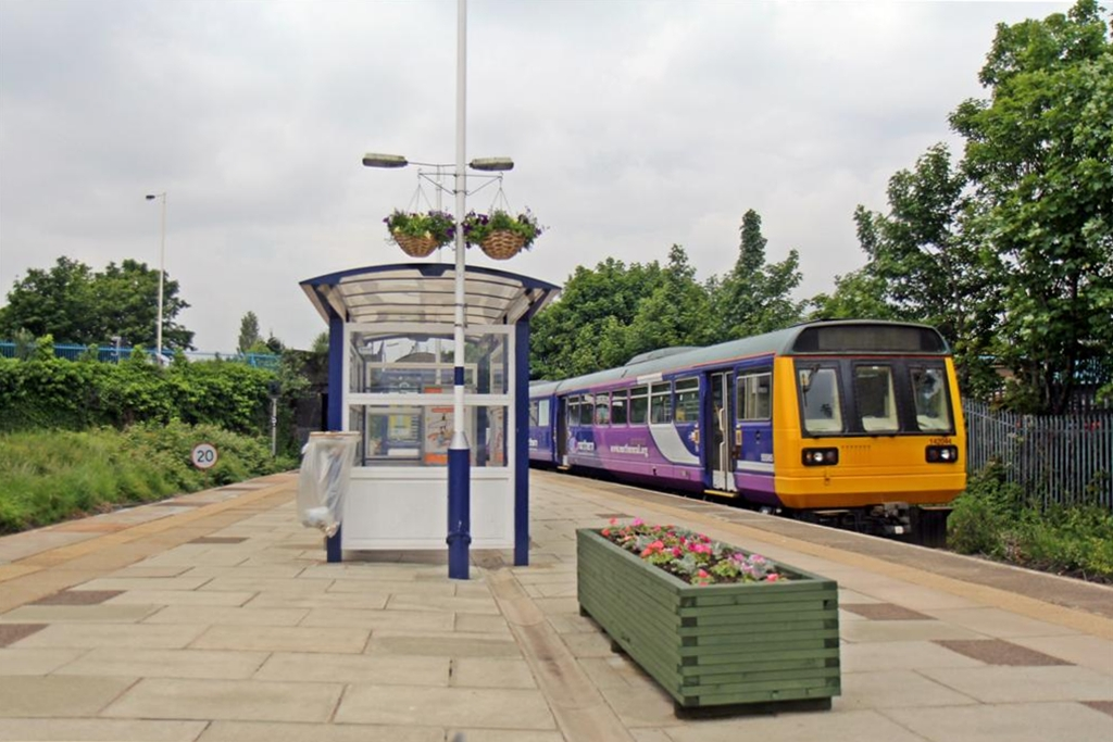 Railbus, Meols Cop Railway Station